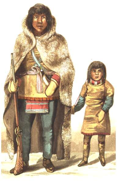 Akaitcho, the leader of the Yellowknife Indians, who assisted John Franklin on his expedition to the Coppermine River, with his son.